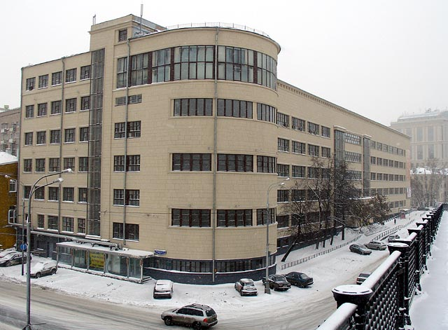 Stalin's Constructivism: Textile Institute (Now MGUDT), Moscow, 1938